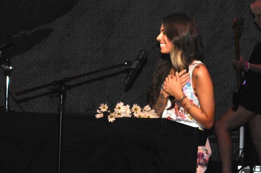 Christina Perri singing "Jar of Hearts" in the lovestrong. tour at San Juan, Puerto Rico.